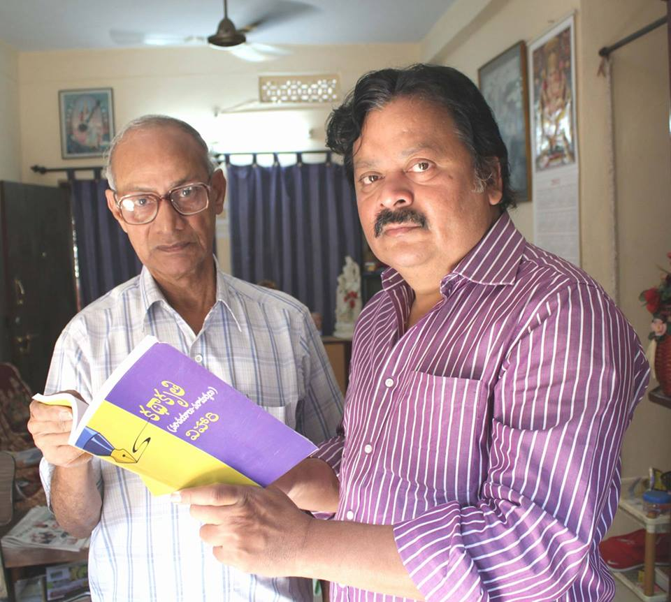 రచయిత విహారి తో వేదగిరి రాంబాబు